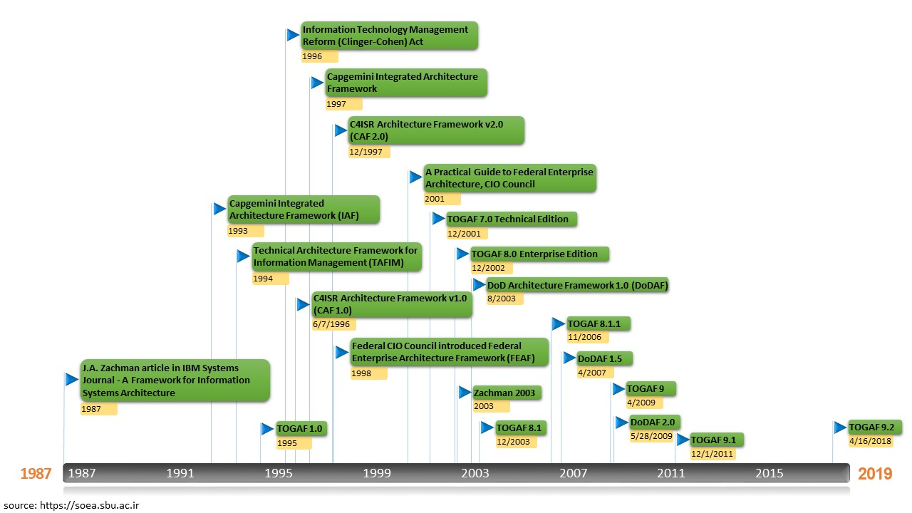 enterprise architectore timeline